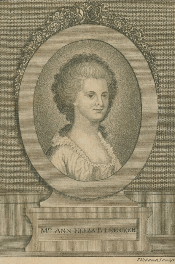 Engraving of Ann Eliza Bleecker, a socialite and noted poet of New York, United States during the 18th century